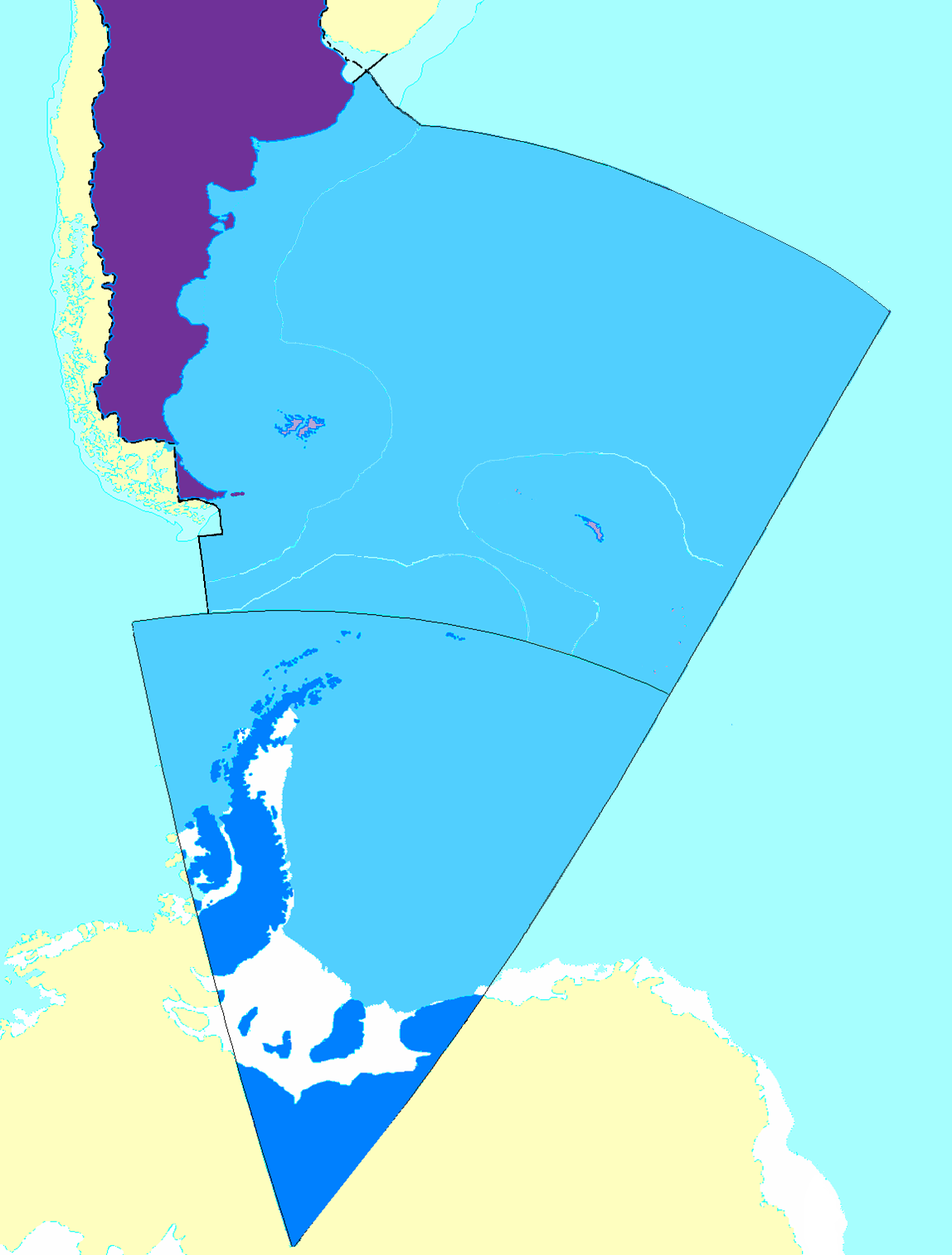 Zone of safeguard of marine resources of Argentina, as the bill of Argentine Senator: Mariano Utrera.